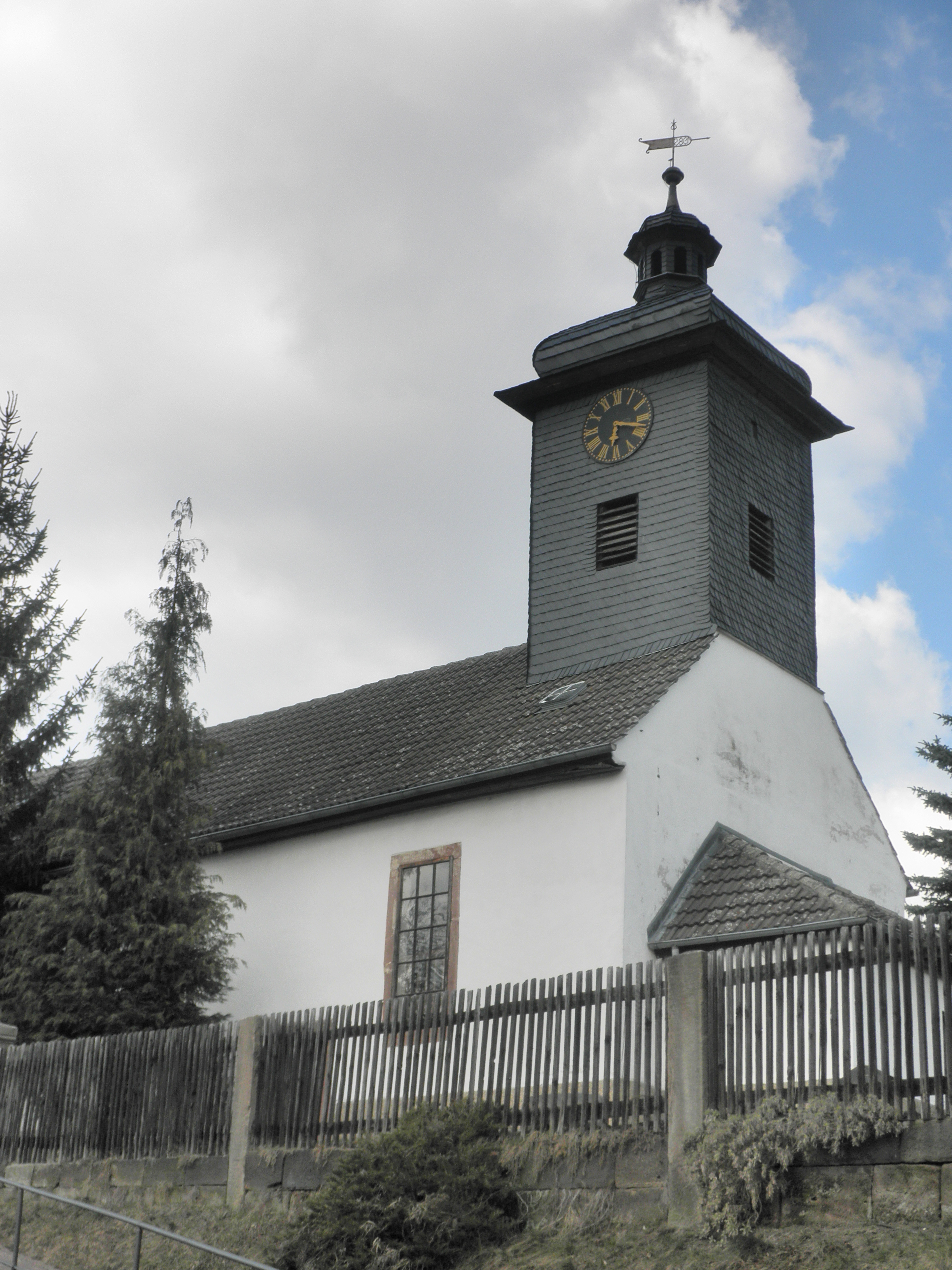 Church in Seitenbrück (Oberbodnitz) in Thuringia